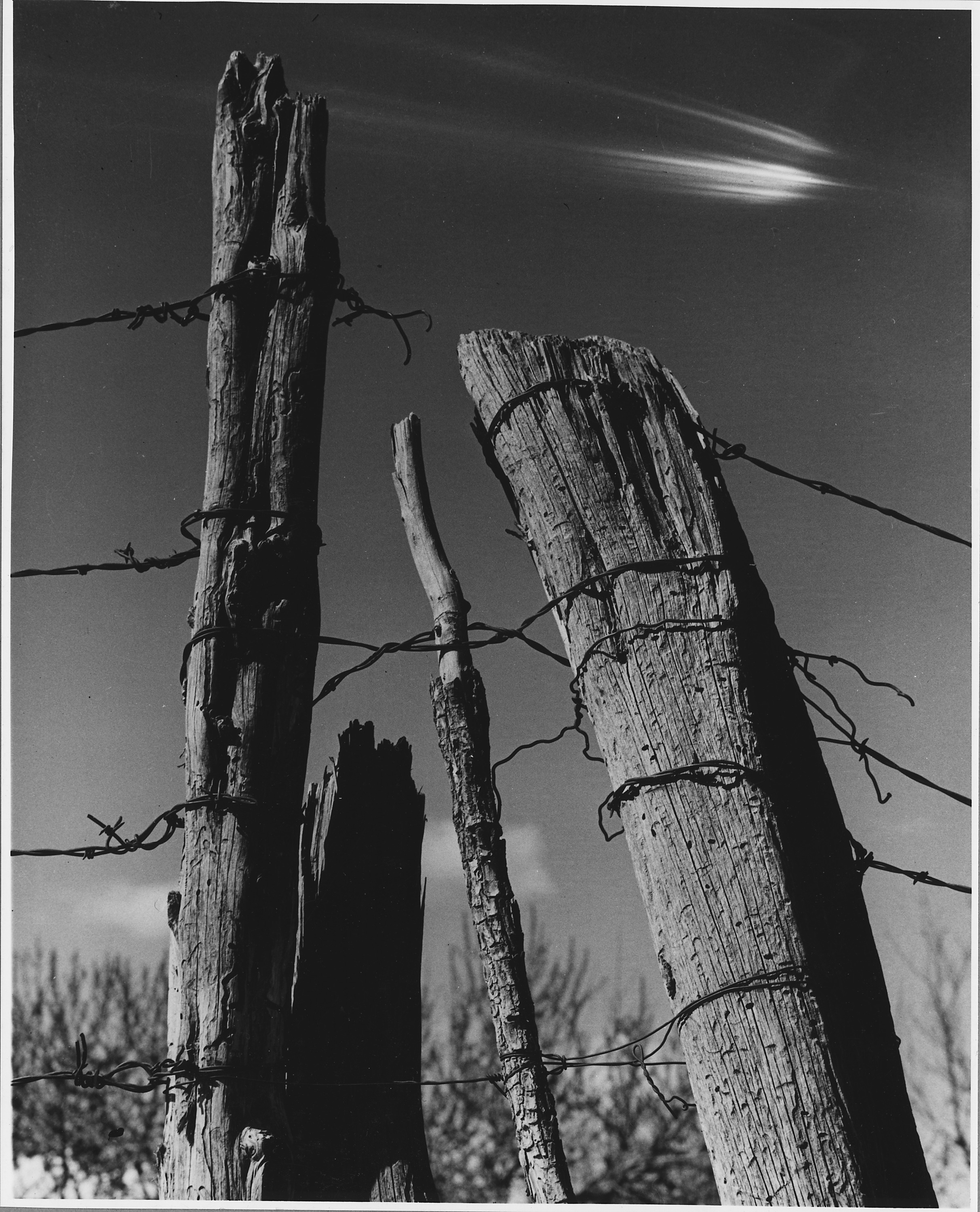 Scope and content: Full caption reads as follows: El Cerrito, San Miguel County, New Mexico. Details of walls and fences.